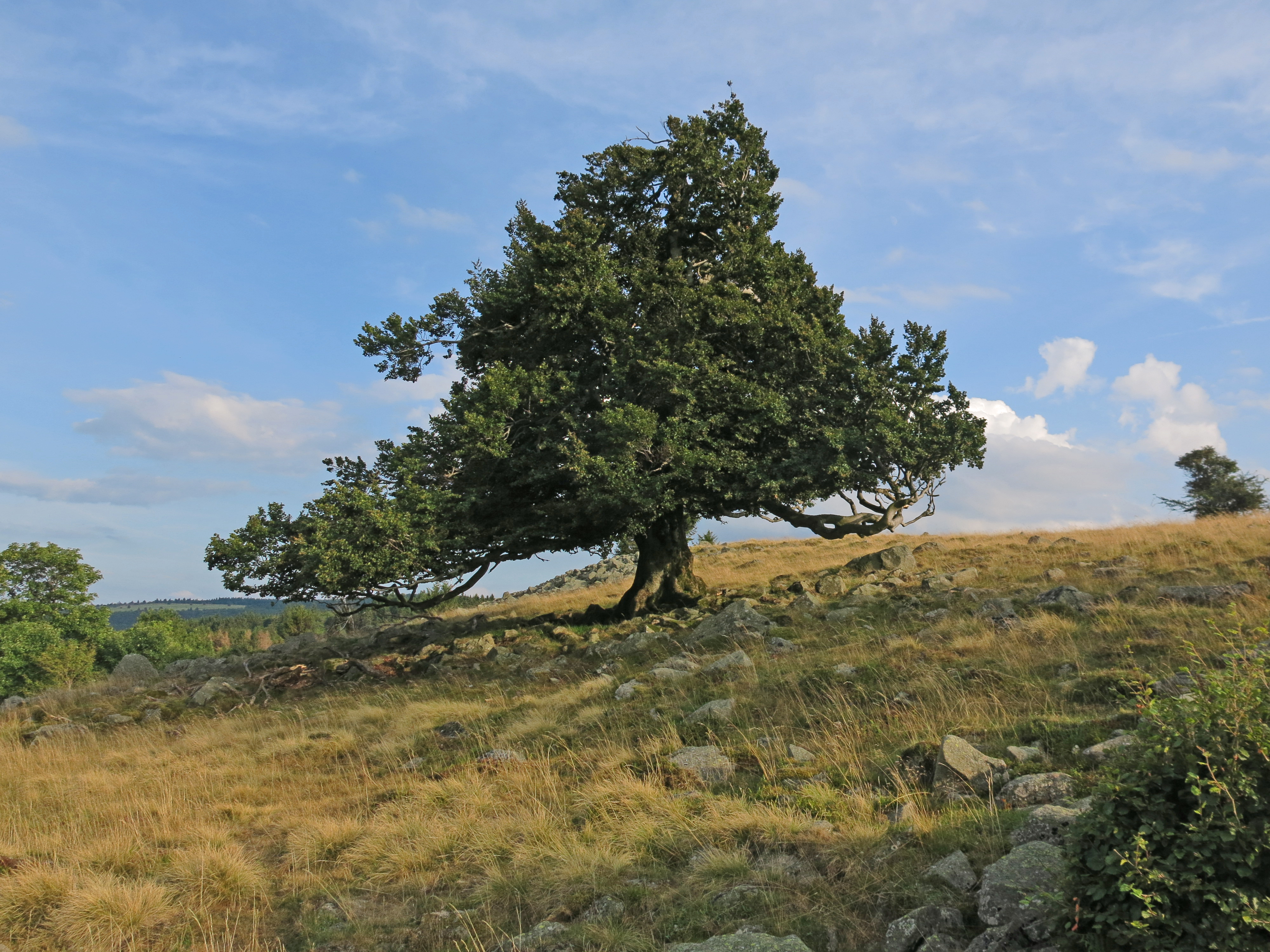 Pasture beech on the Mathesberg in the Rhön Biosphere Reserve